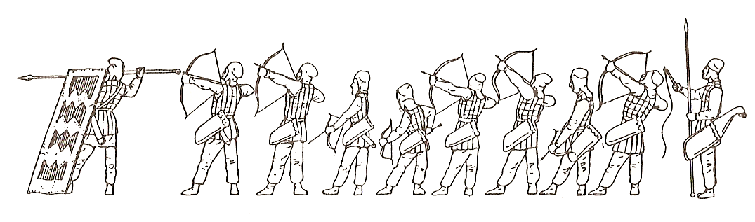 Persian army formation. First row: infantryman with big shield and spear. Archers. Last: commanders and overseers(?). Formation was good for defence but poor for attack.